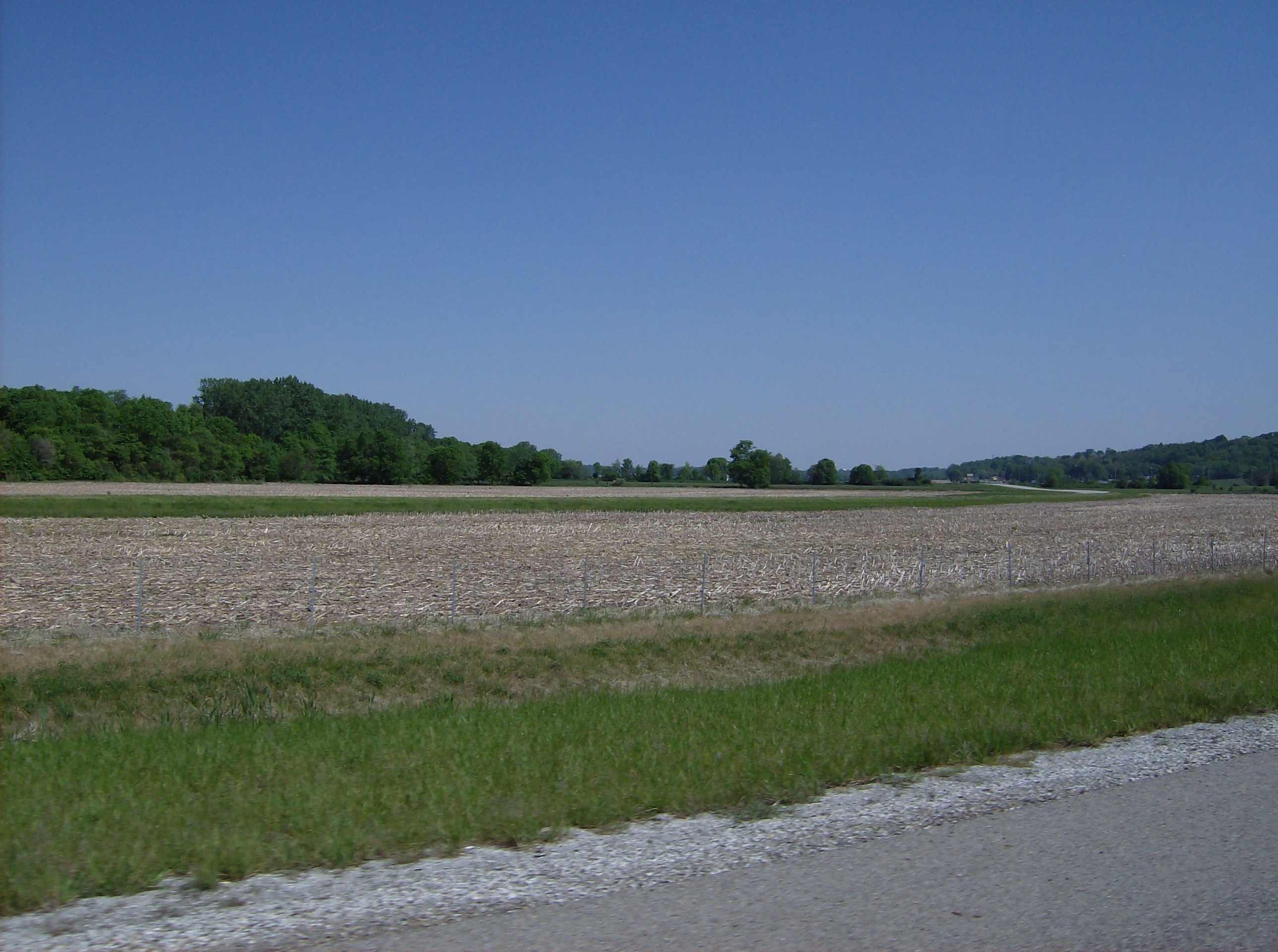 View of farmland in southern Urbana Township, Champaign County, Ohio, United States. Picture taken northward from U.S. Route 68.